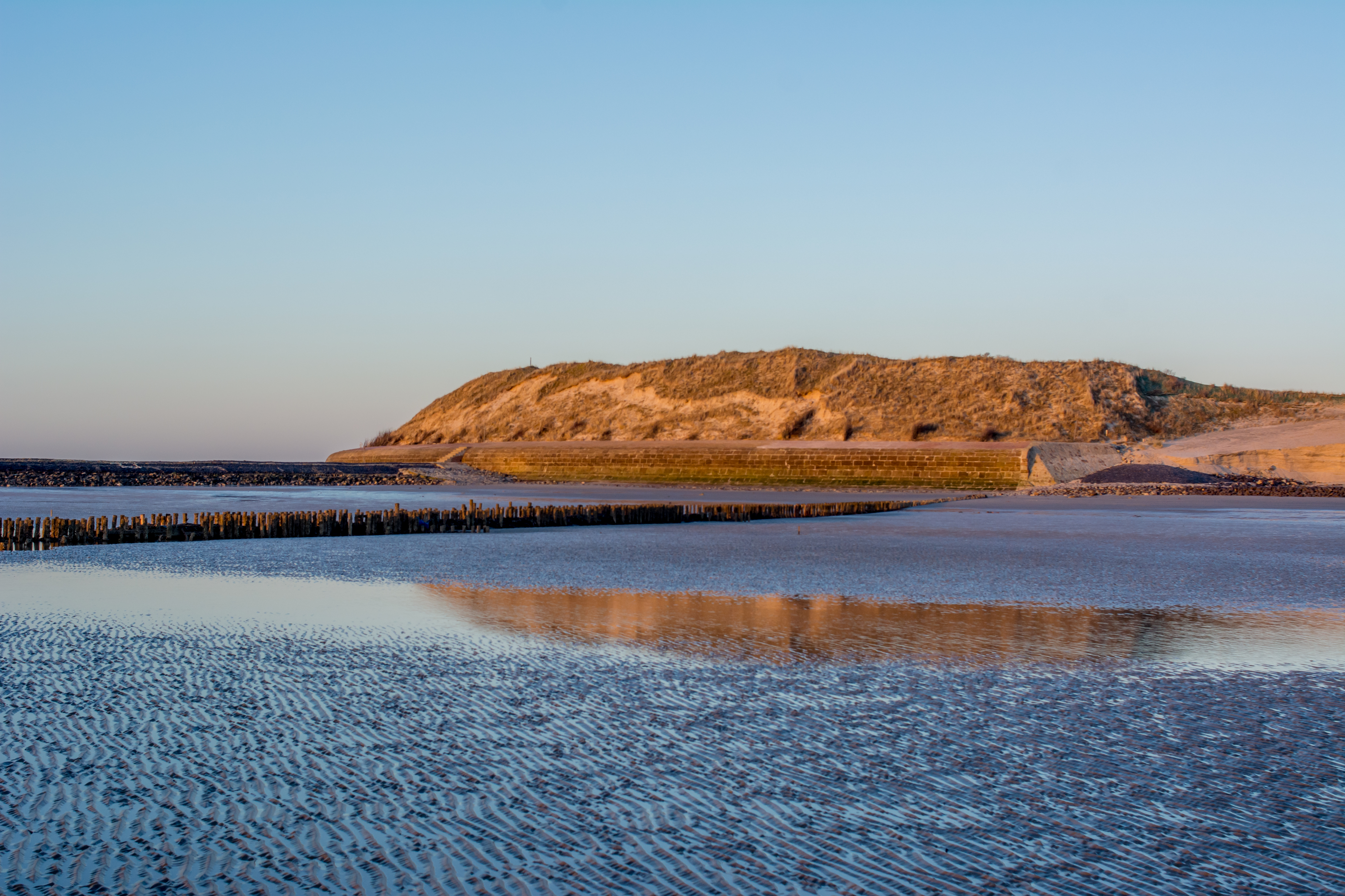 Küstenschutz im Westen Spiekeroogs (links: Buhnen, mittig: Hessenwand, rechts: Verschleißkörper)